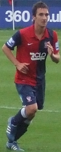 Mark Robinson.